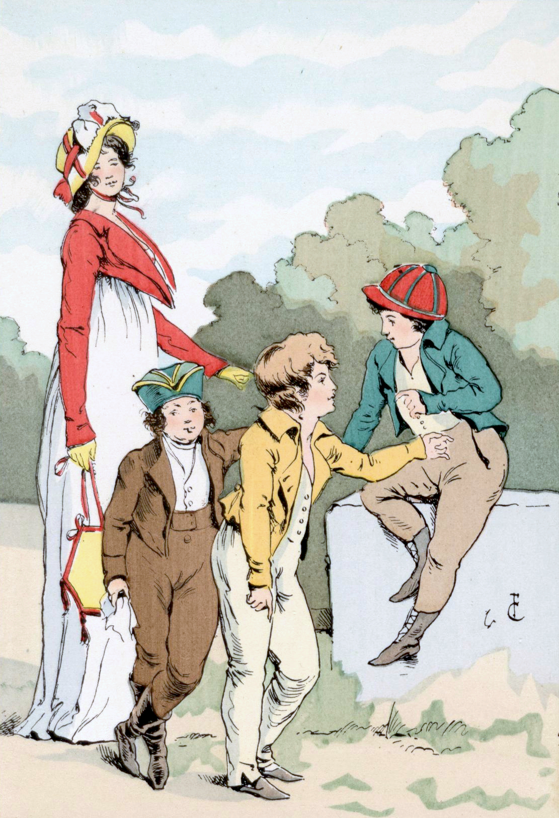 This colored plate depicts a woman surrounded by 3 little boys. She is wearing a typical, white empire-waist dress, probably made from muslin. She is wearing a 'Spencer jacket,' which is an overcoat without tails popularized in England by Earl Spencer. The children look comfortably dressed in 'skeleton suits.' Departing from Rousseau's theories of education, children's fashions swung towards clothes more conducive to play and specific fashions for children were innovated.